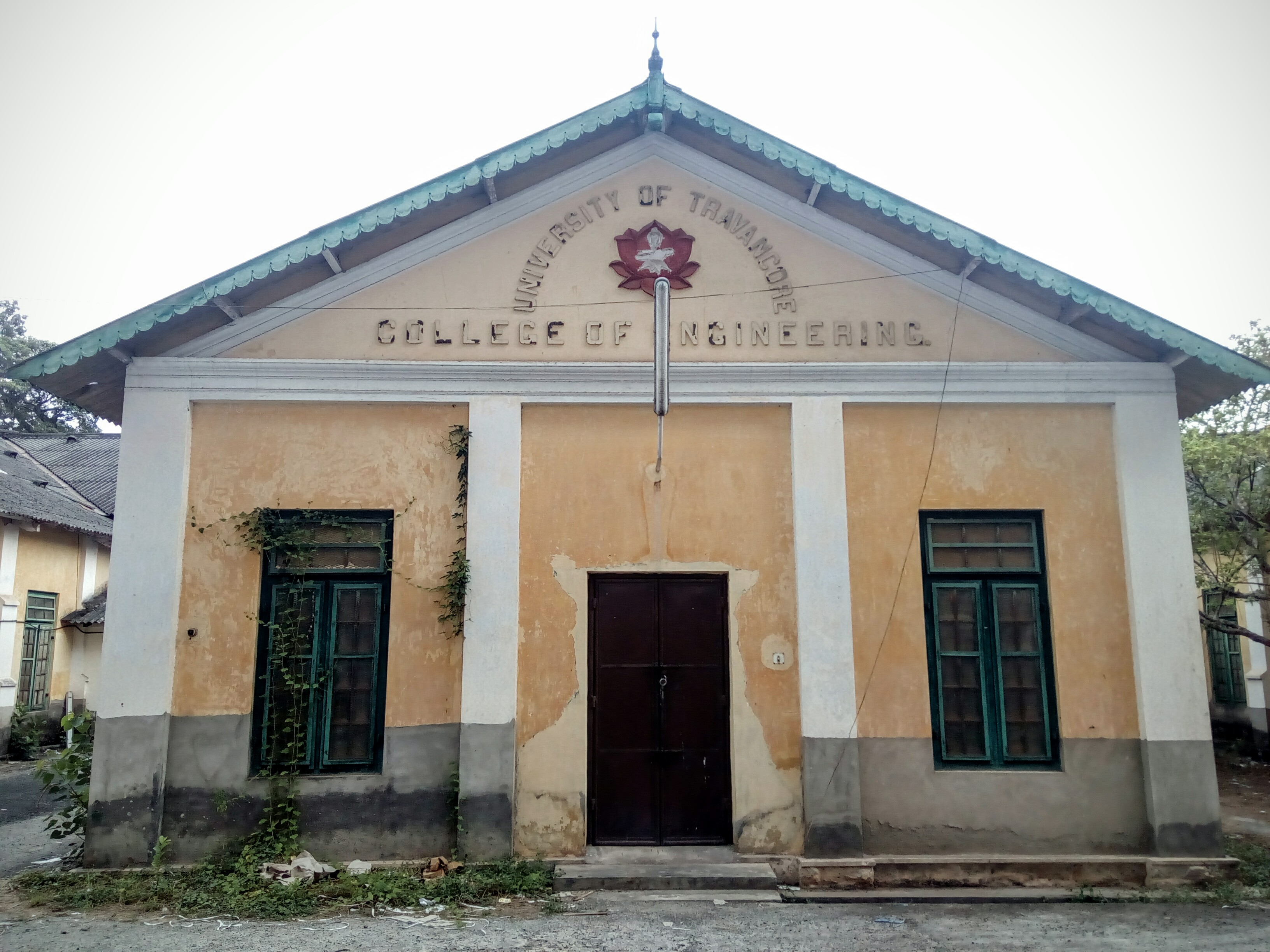 CET old campus